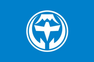 Flag of Narusawa Yamanashi